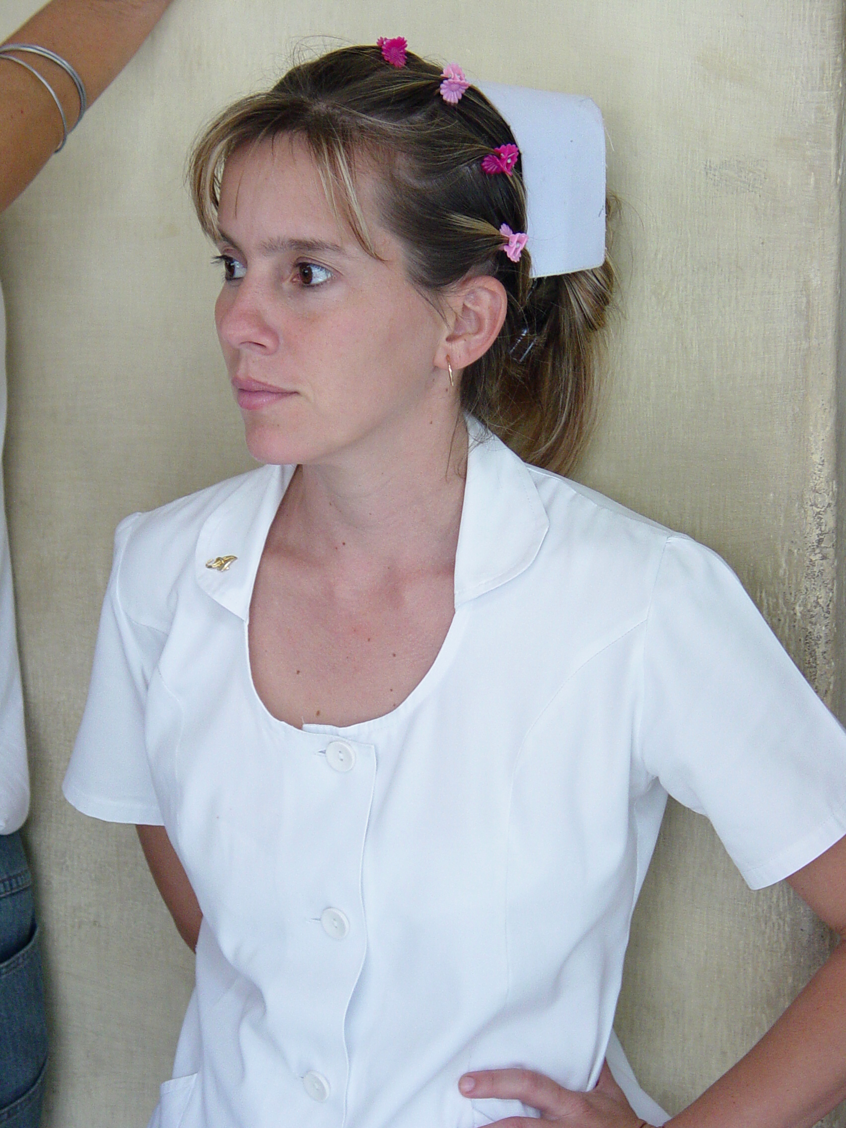 Nurse in Pinar del Rio, Cuba. December 2006.